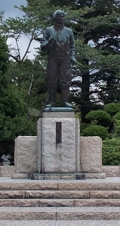 Chiran Peace Museum for Kamikaze Pilots, Minamikyushu, Kagoshima, Japan